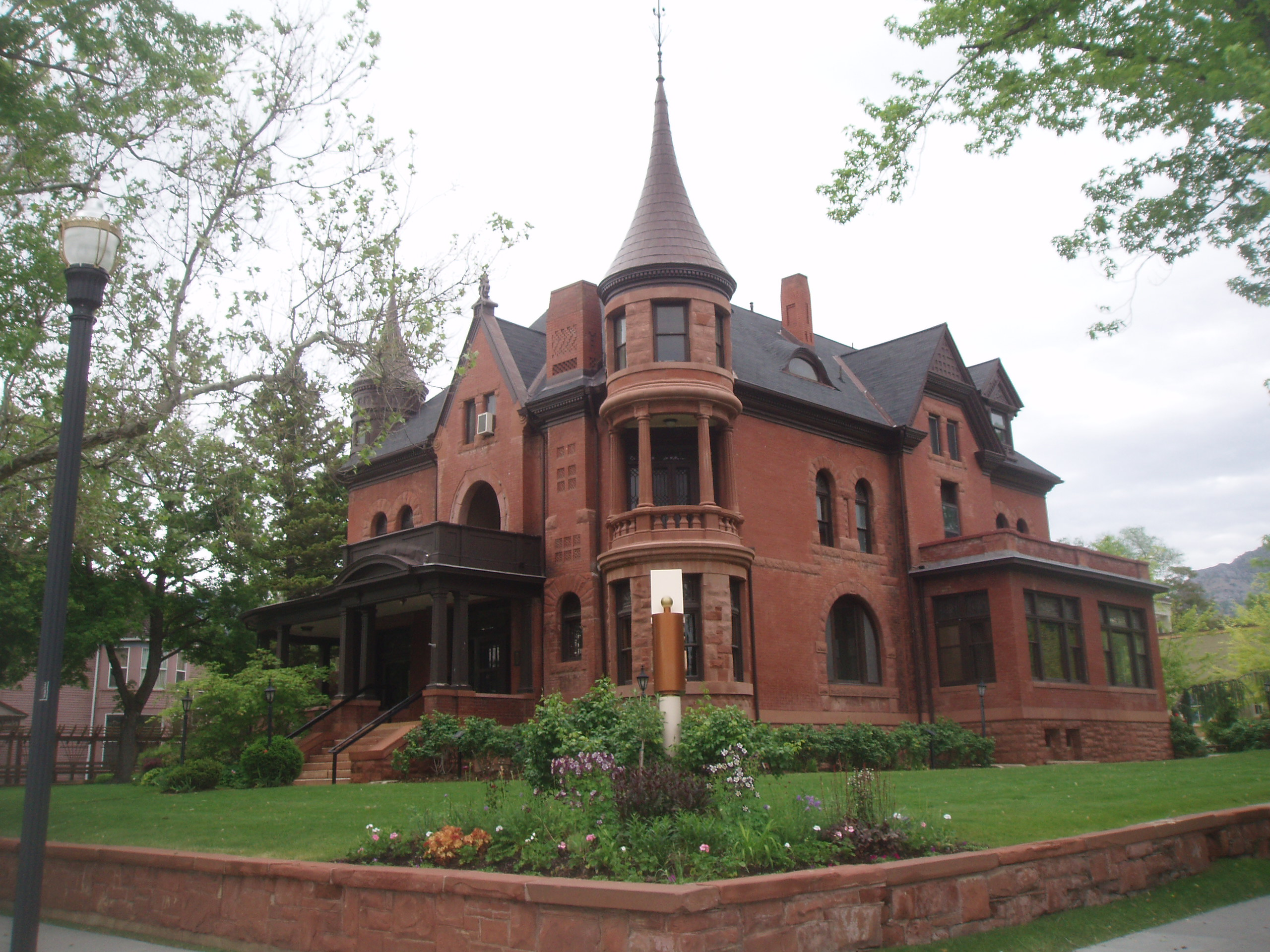 The Bertha Eccles Community Art Center, a historic building in Ogden, Utah, United States.